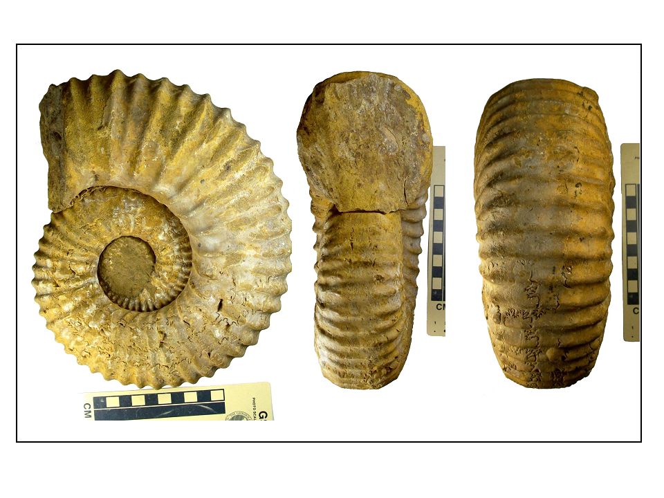 Mantelliceras sp. (adult specimen) from Early Cenomanian of Madagascar.